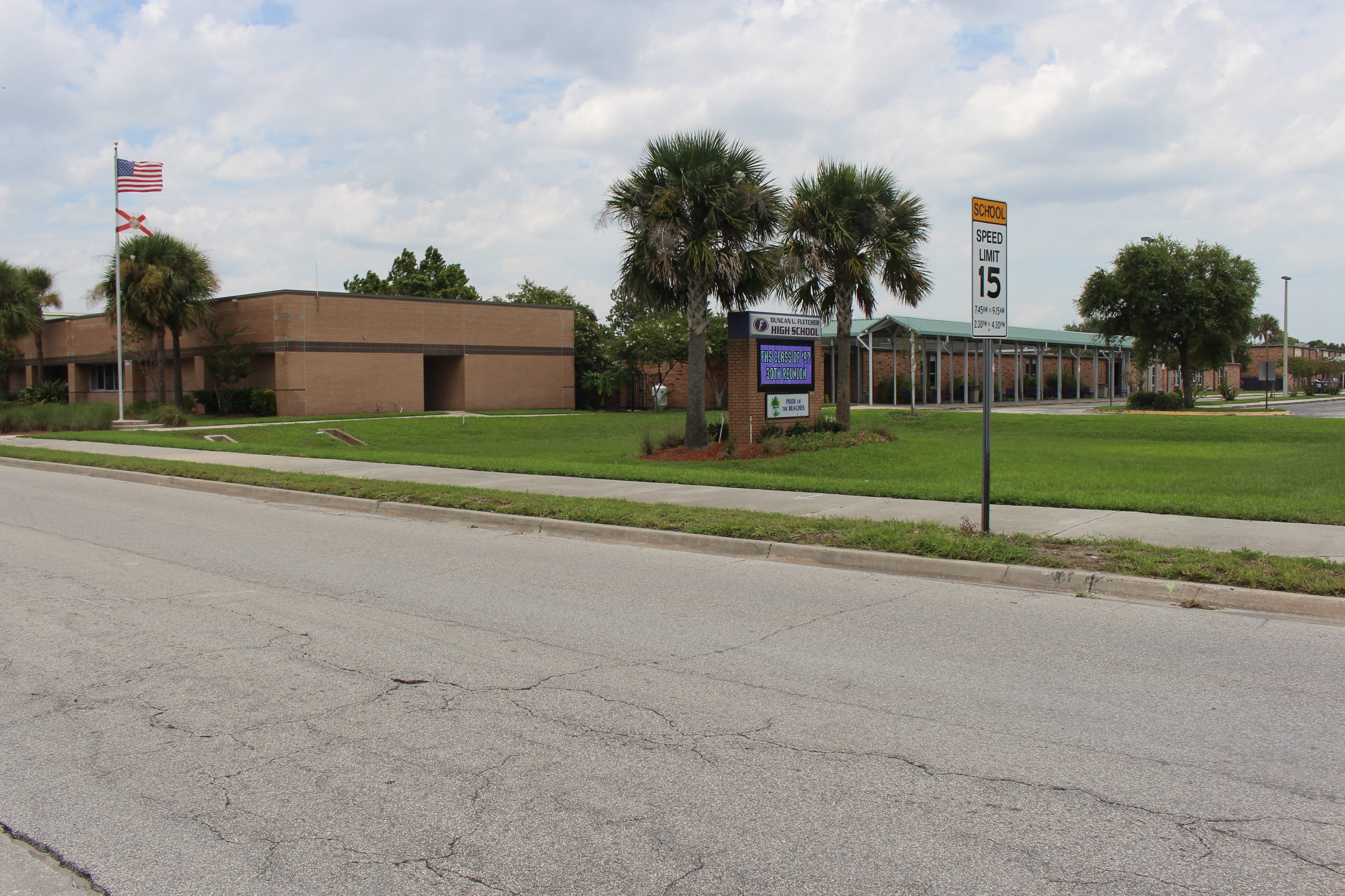 Duncan U. Fletcher High School, Neptune Beach, Duval County, Florida